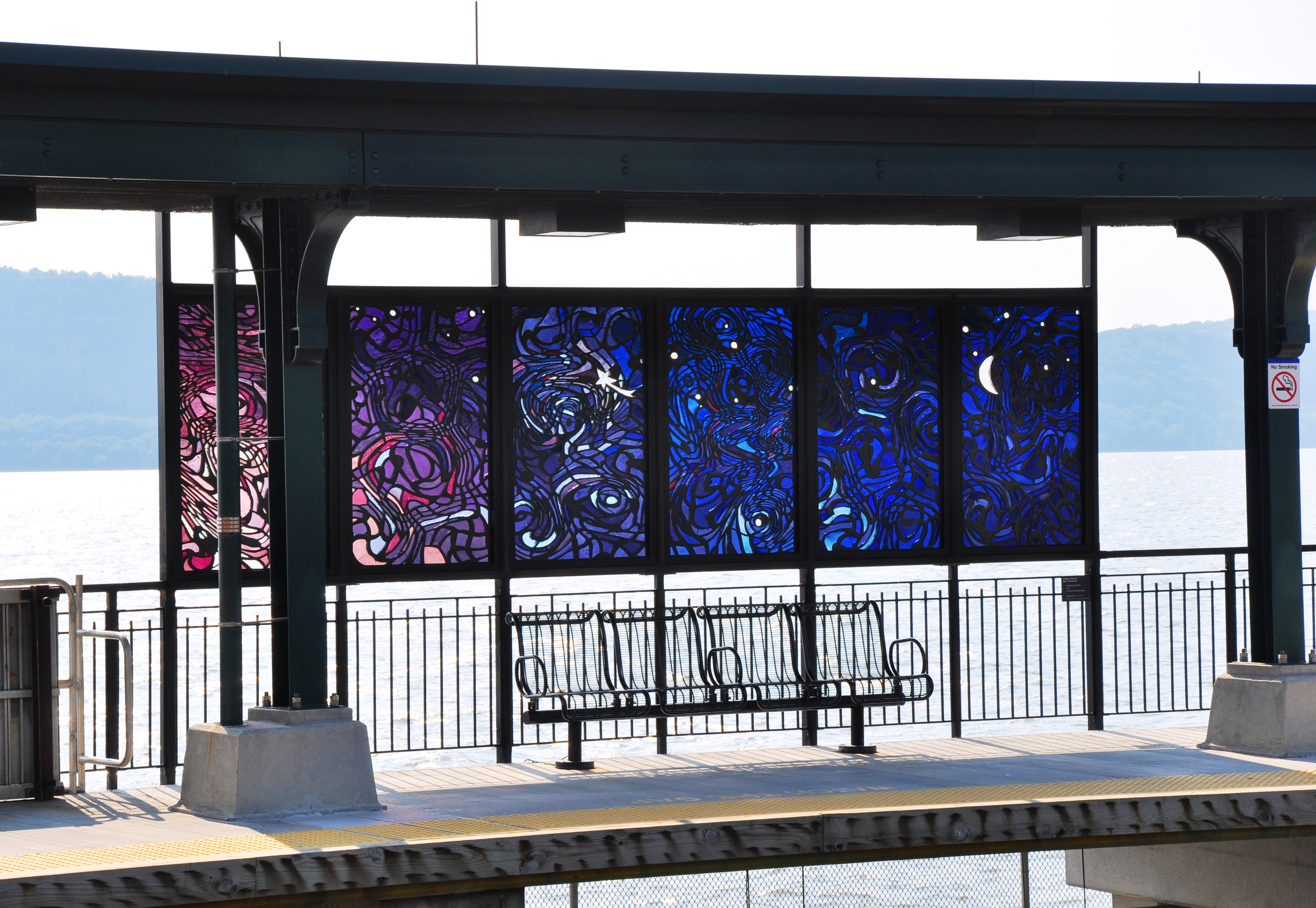 Untitled with Sky (six stained glass windows and twelve seats covered in mosaic tiles) by Liliana Porter and Ana Tiscornia using Willet Hauser Architectural Glass. At the Scarborough train station in Briarcliff Manor, New York; photograph taken July 12, 2014.